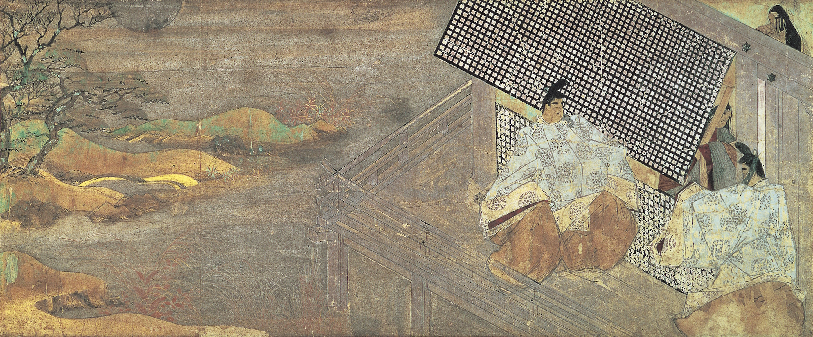 The Murasaki Shikibu Diary Emaki (紙本著色紫式部日記絵巻, shihonchoshoku Murasaki Shikibu nikki emaki). This is part of the handscroll located at the Gotoh Museum in Tokyo which consists of three illustrations and three pages of text. Color on paper. The scroll has been designated as National Treasure of Japan in the category paintings. 21.0cm x 50.3cm.